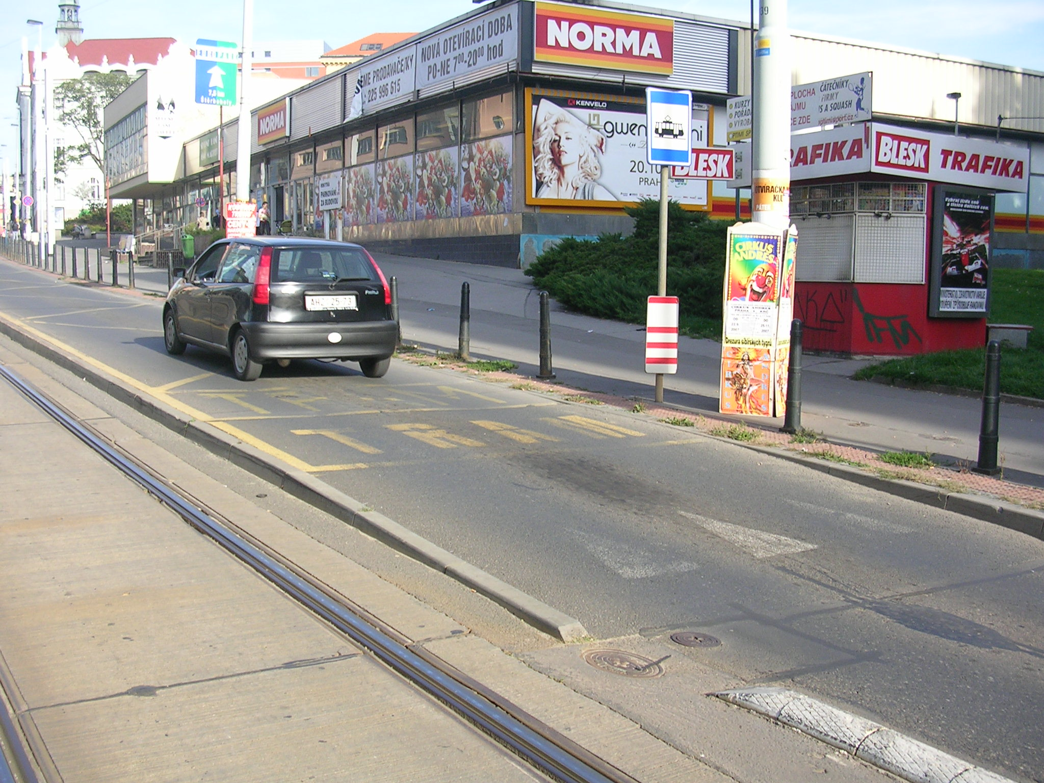 Tram stop Nádraží Vysočany, Prague-Vysočany, Czech Republic.